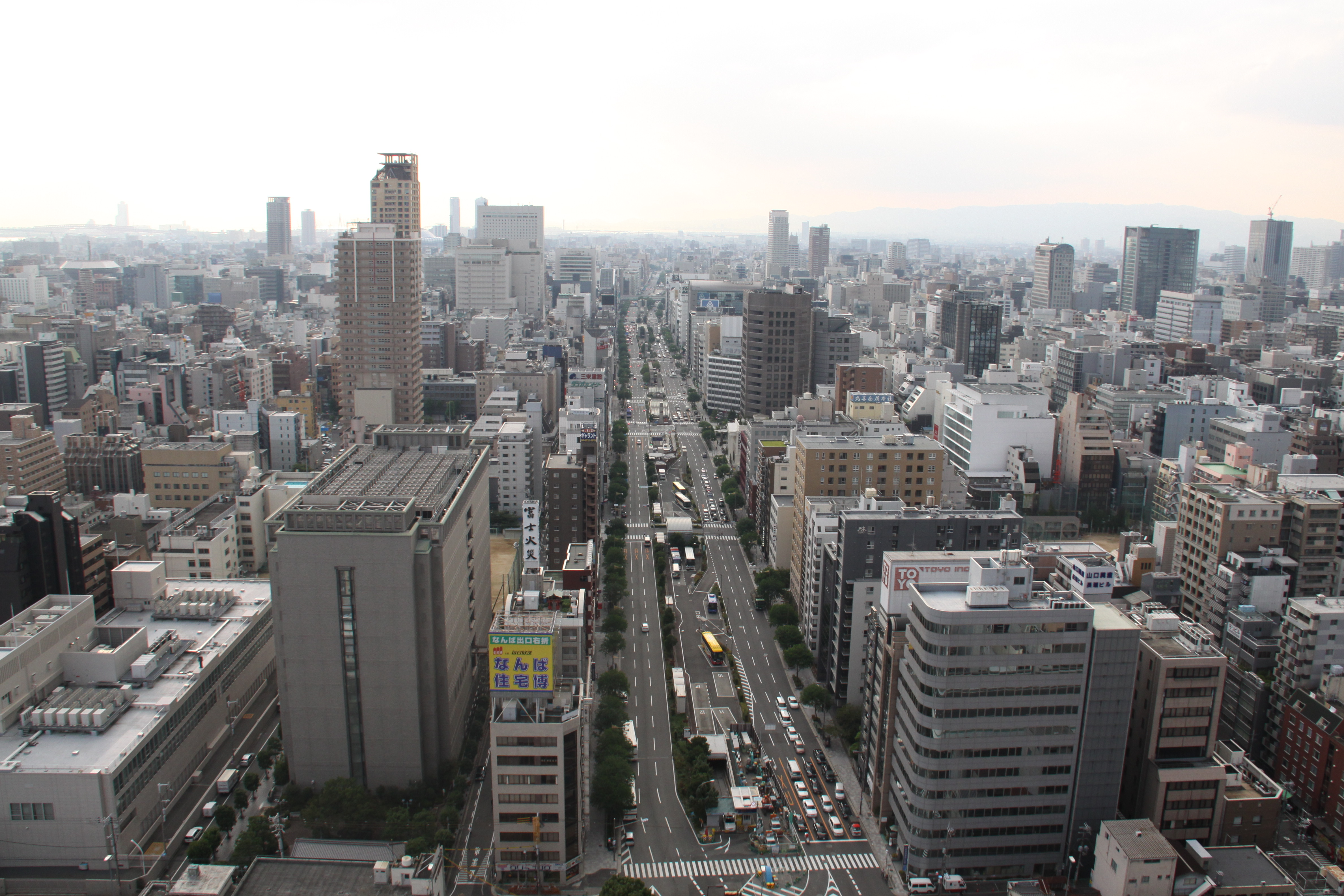 Nagahori-dori in Osaka, Japan